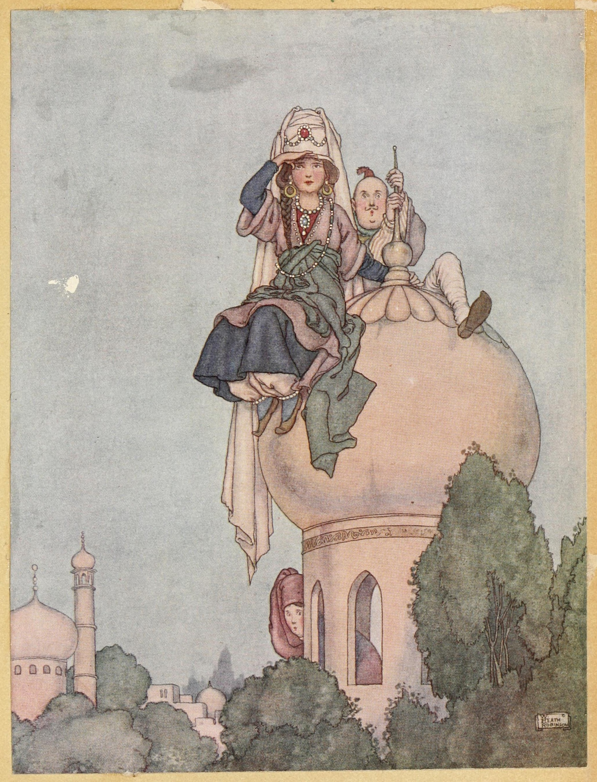 Colour plate in Hans Andersen's fairy tales (1913) London: Constable.